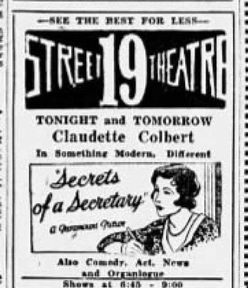 Nineteenth Street Theater advertisement for the American film Secrets of a Secretary (1931) - 16 Nov. 1931 Morning Call, Allentown PA